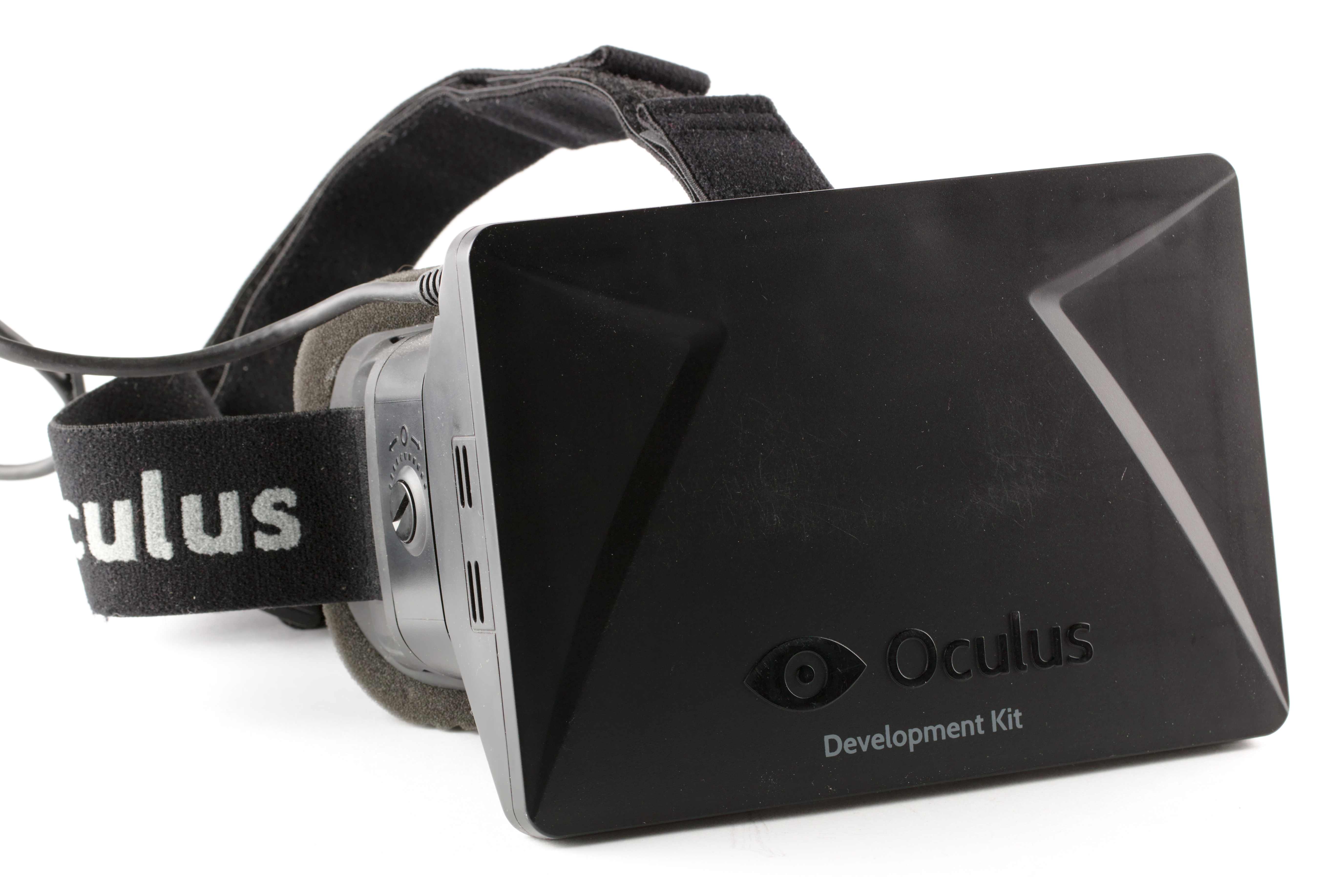 Oculus Rift - Developer Version - Front